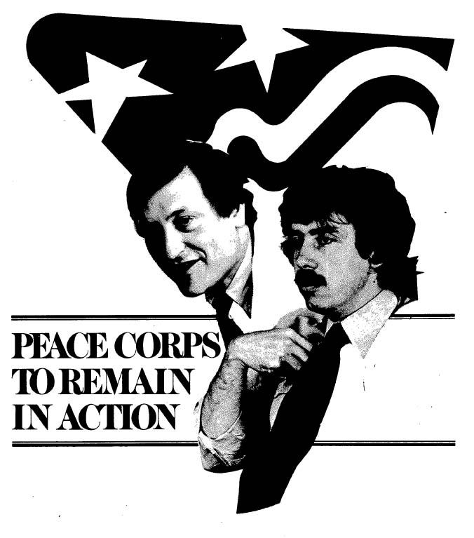 Action Update "Peace corps to remain in Action" August 16, 1979